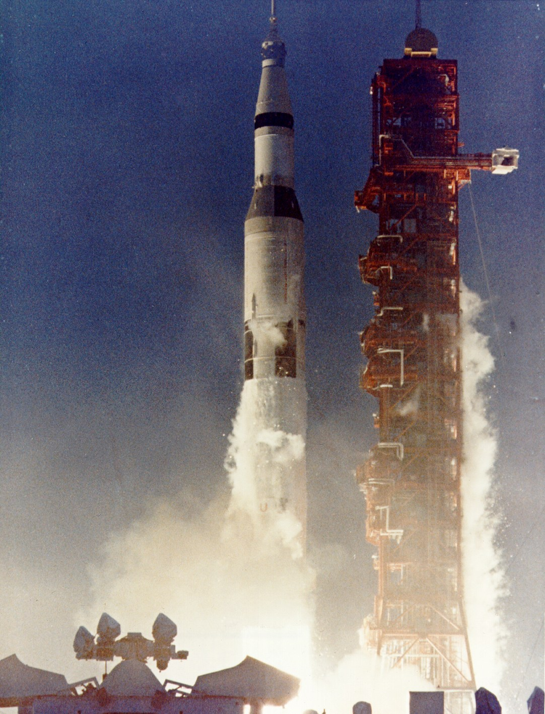 S69-58564 (14 Nov. 1969) --- The huge, 363-feet tall Apollo 12 (Spacecraft 108/Lunar Module 6/Saturn 507) space vehicle is launched from Pad A, Launch Complex 39, Kennedy Space Center (KSC), at 11:22 a.m. (EST), Nov. 14, 1969. Aboard the Apollo 12 spacecraft were astronauts Charles Conrad Jr., commander; Richard F. Gordon Jr., command module pilot; and Alan L. Bean, lunar module pilot. Apollo 12 is the United States' second lunar landing mission.